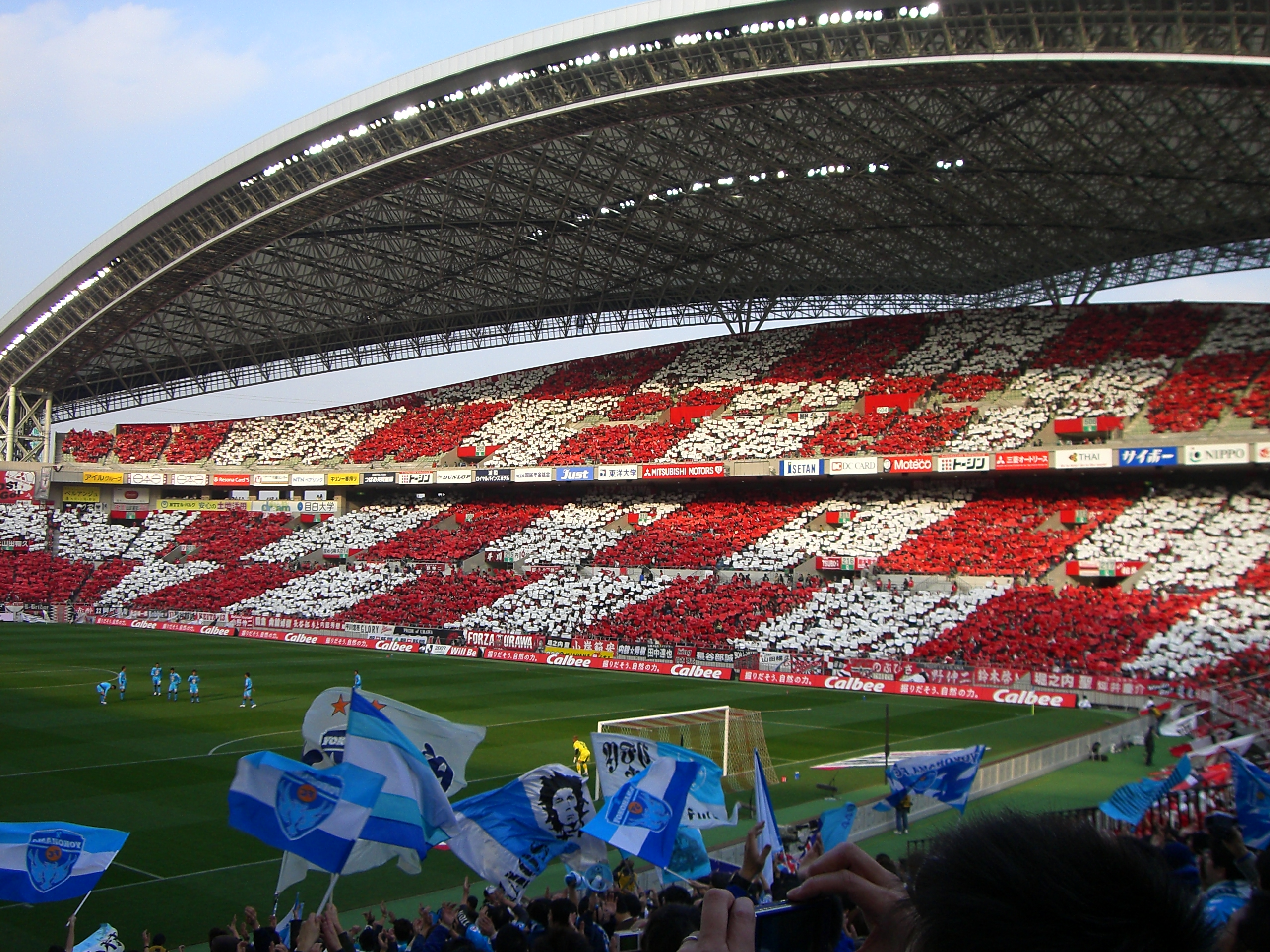 Saitama Stadium2002.